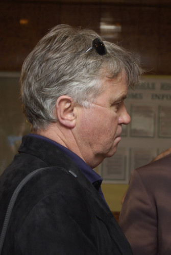 Guus Hiddink in Domodedovo airport after away match with Croatia.